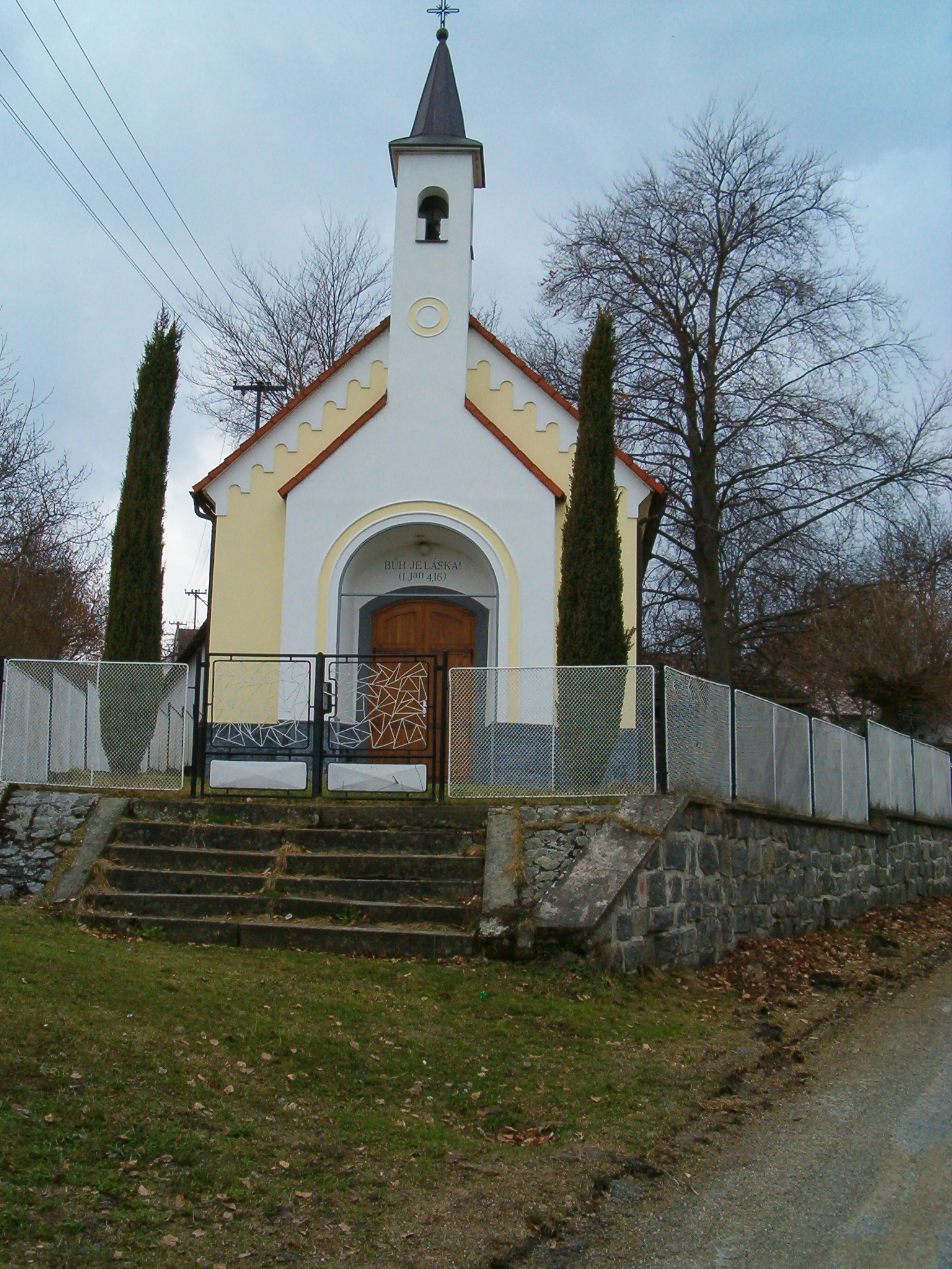 Hrazany village in the Písek district, Czech Republic. Chapel of st. Ghost from 1926.